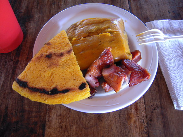 changa